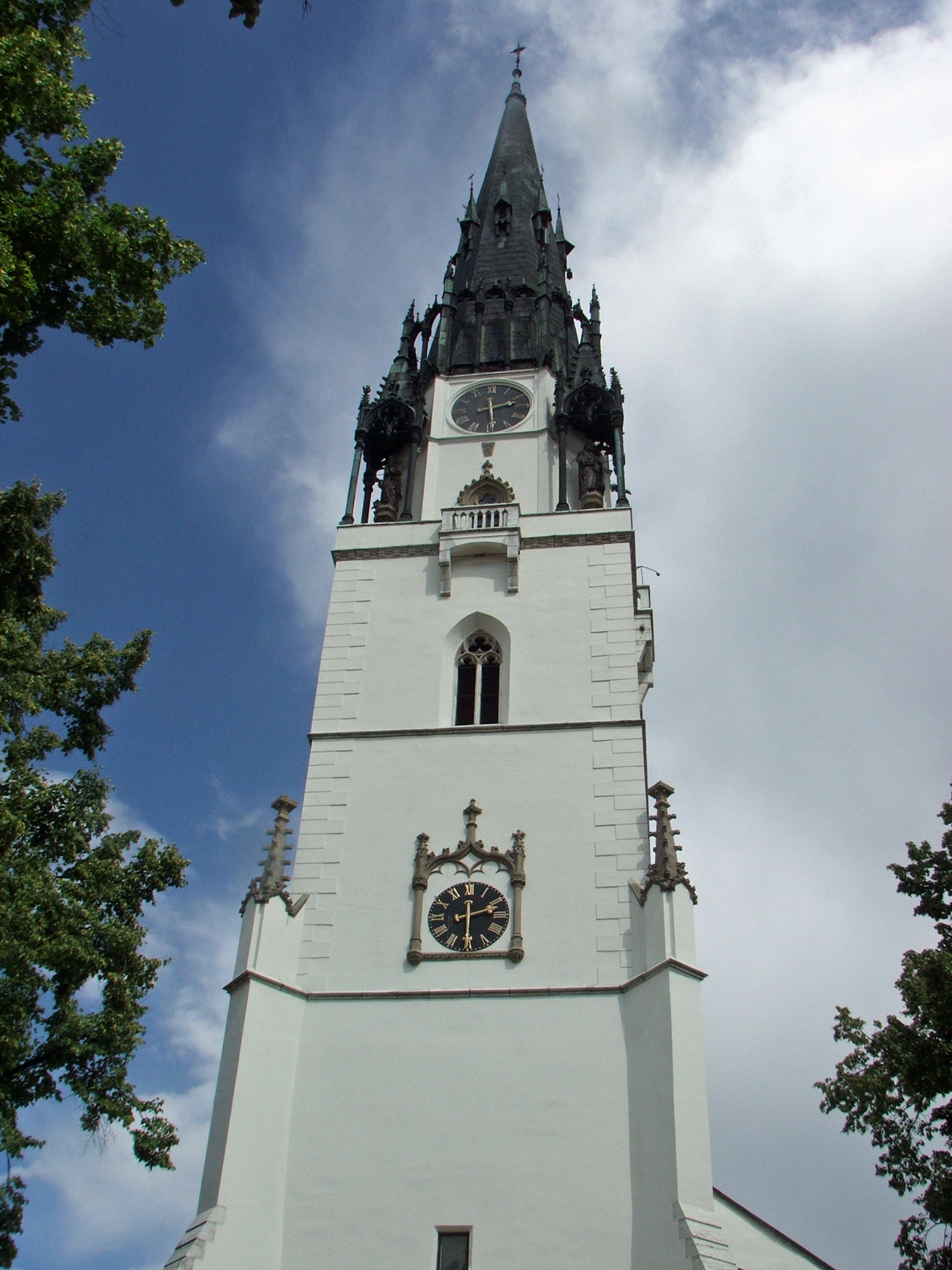 Gothic church of the Assumption of the Virgin Mary in Spišská Nová Ves. This medium shows the protected monument with the number 810-612/1 in the Slovak Republic.